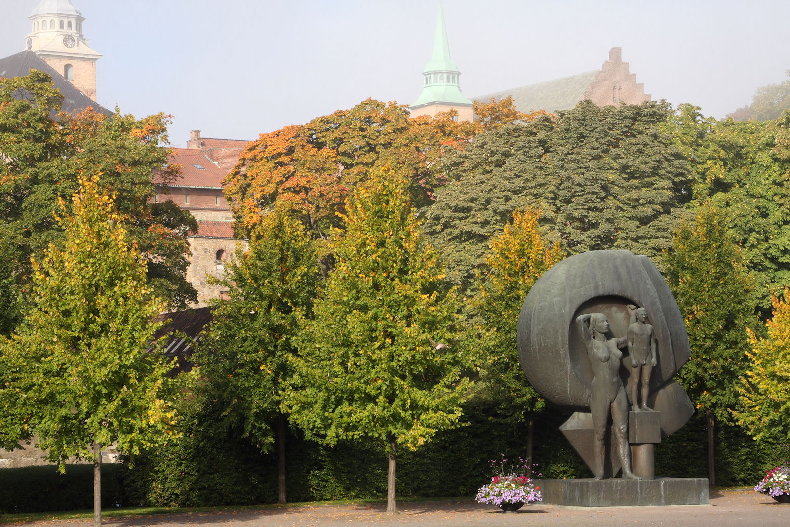 Nasjonalmonumentet for krigens ofre (Gunnar Janson), Festningsplassen, Akershus festning.